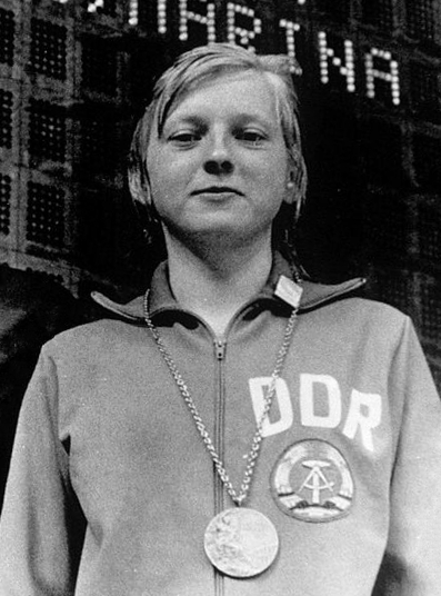 1972 Wire Photo Top 3 Winners Diving Olympics